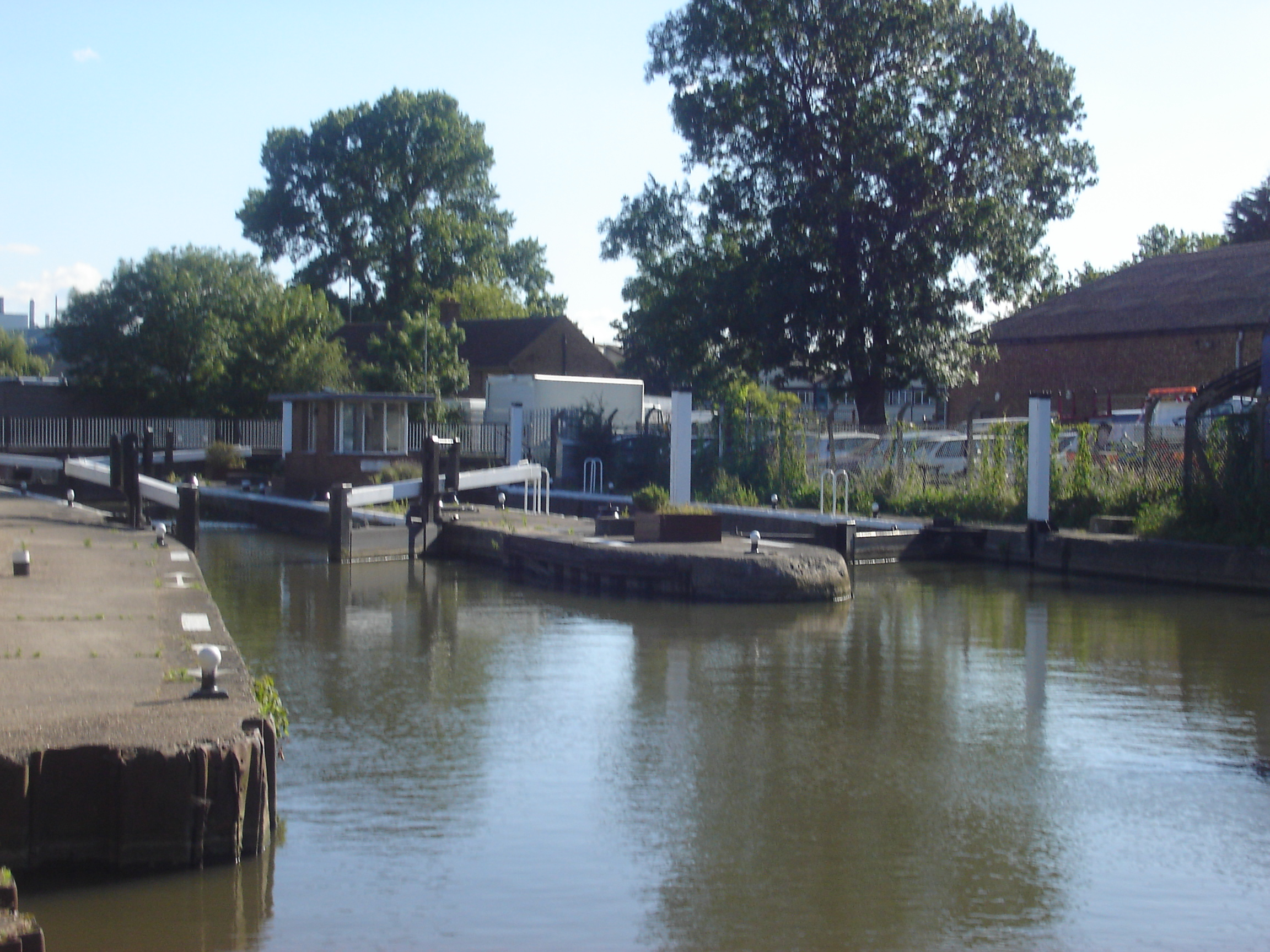 Photo of Ponder's End Lock